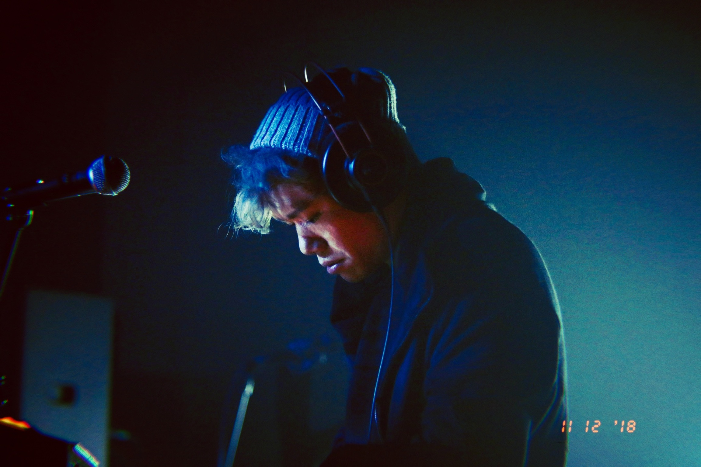 Jimmy Fung on stage